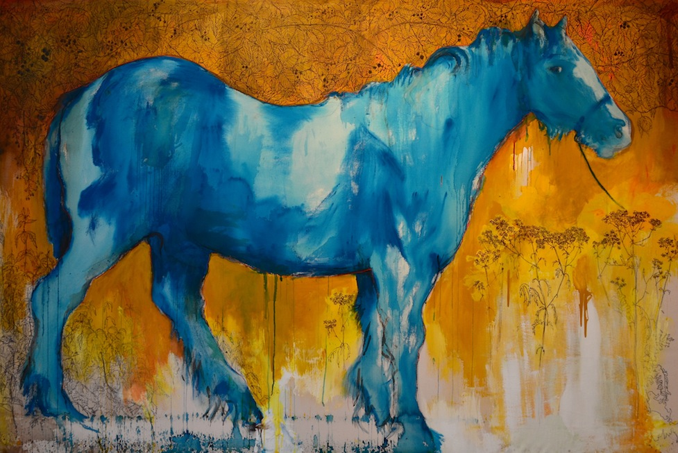 'Blue Colt', acrylic on canvas